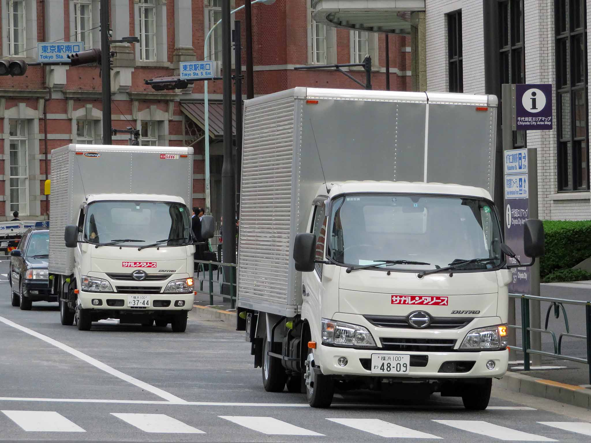 Two Hino Dutros (2nd generation), before and after of 2016 updates. Forward: 2016 updated, PCS rader equipped License plate: KNY100WA4809 Aft: Origin License plate: KNY100WA3744 Rental trucks of Saga Rent-a-lease